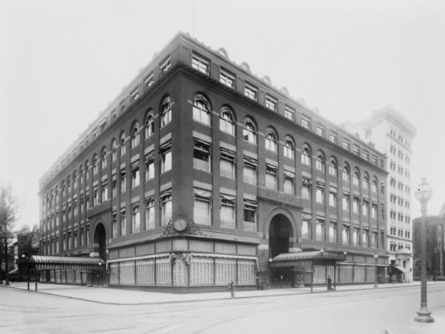 [Exterior of the Palais Royal, Washington, D.C.] [11th street and G street]